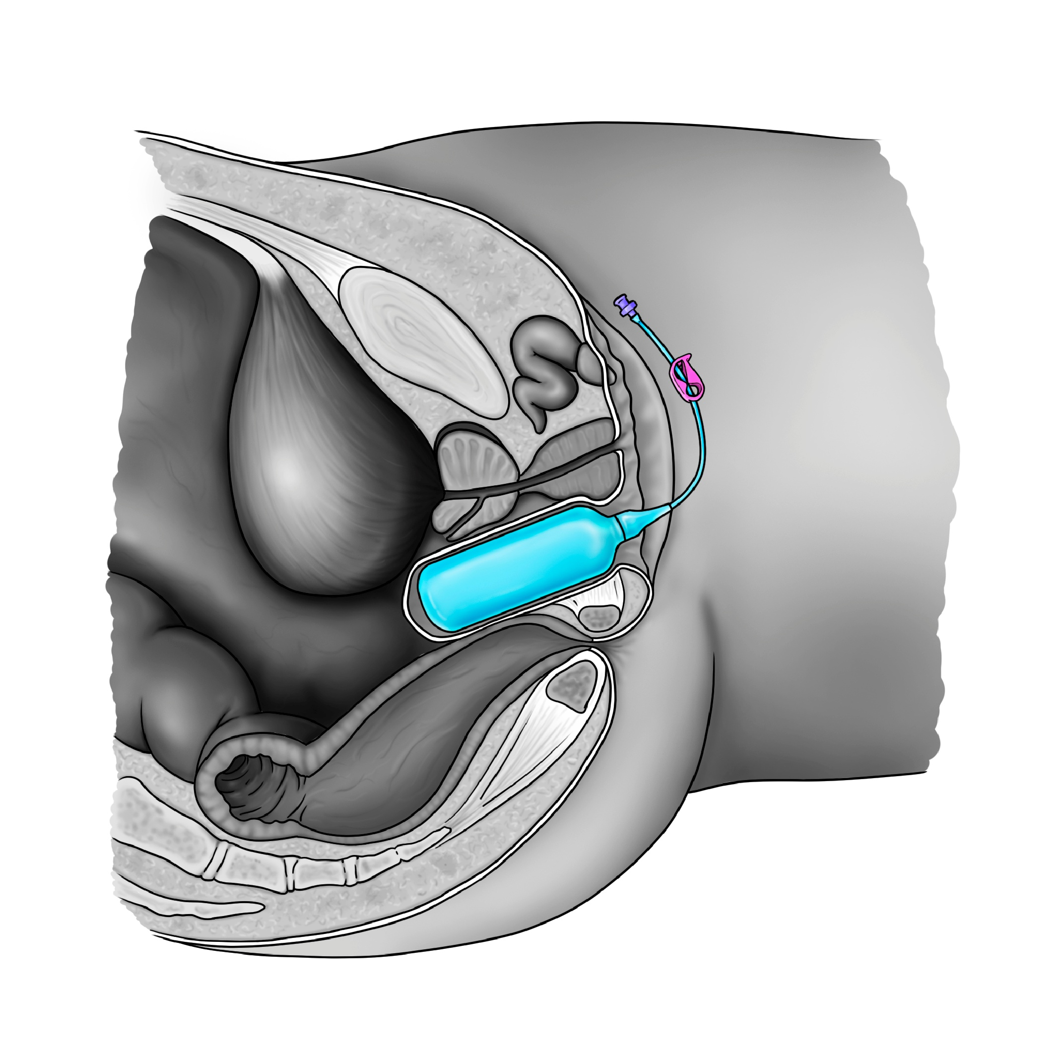 ZSI 200 NS vaginal expander placed in the neovagina after vaginoplasty